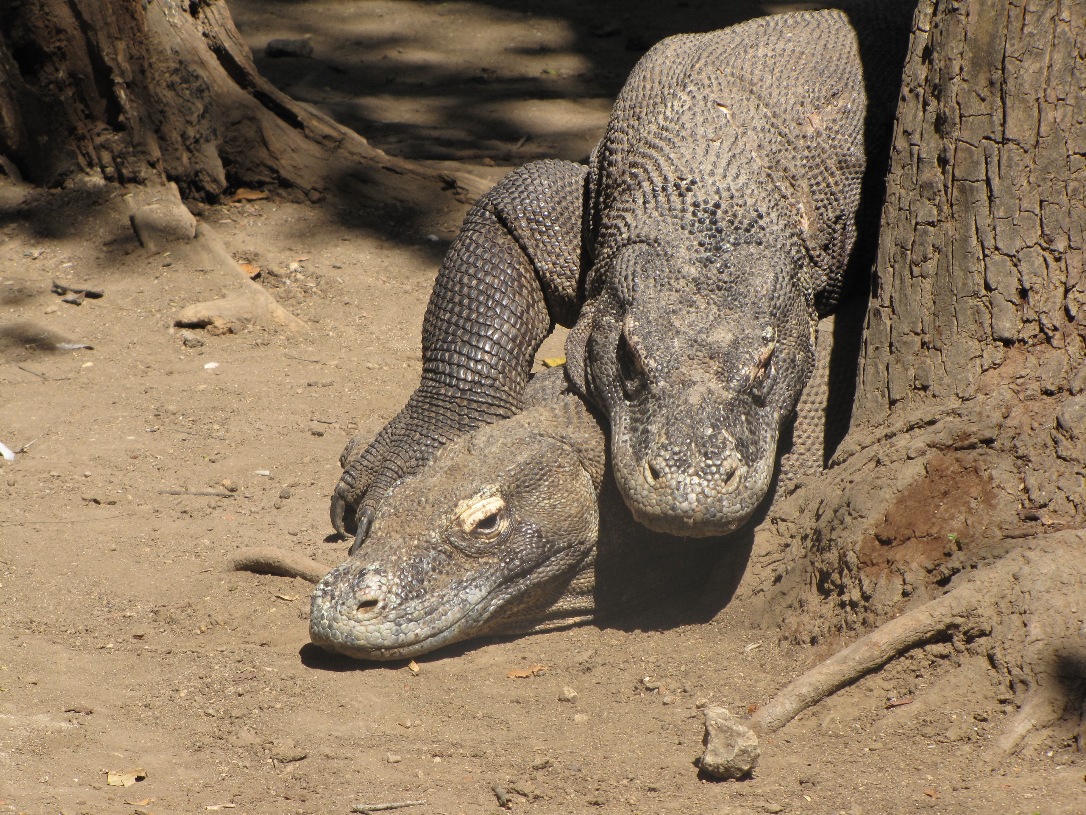 Komodo dragons mating (on Rinca)